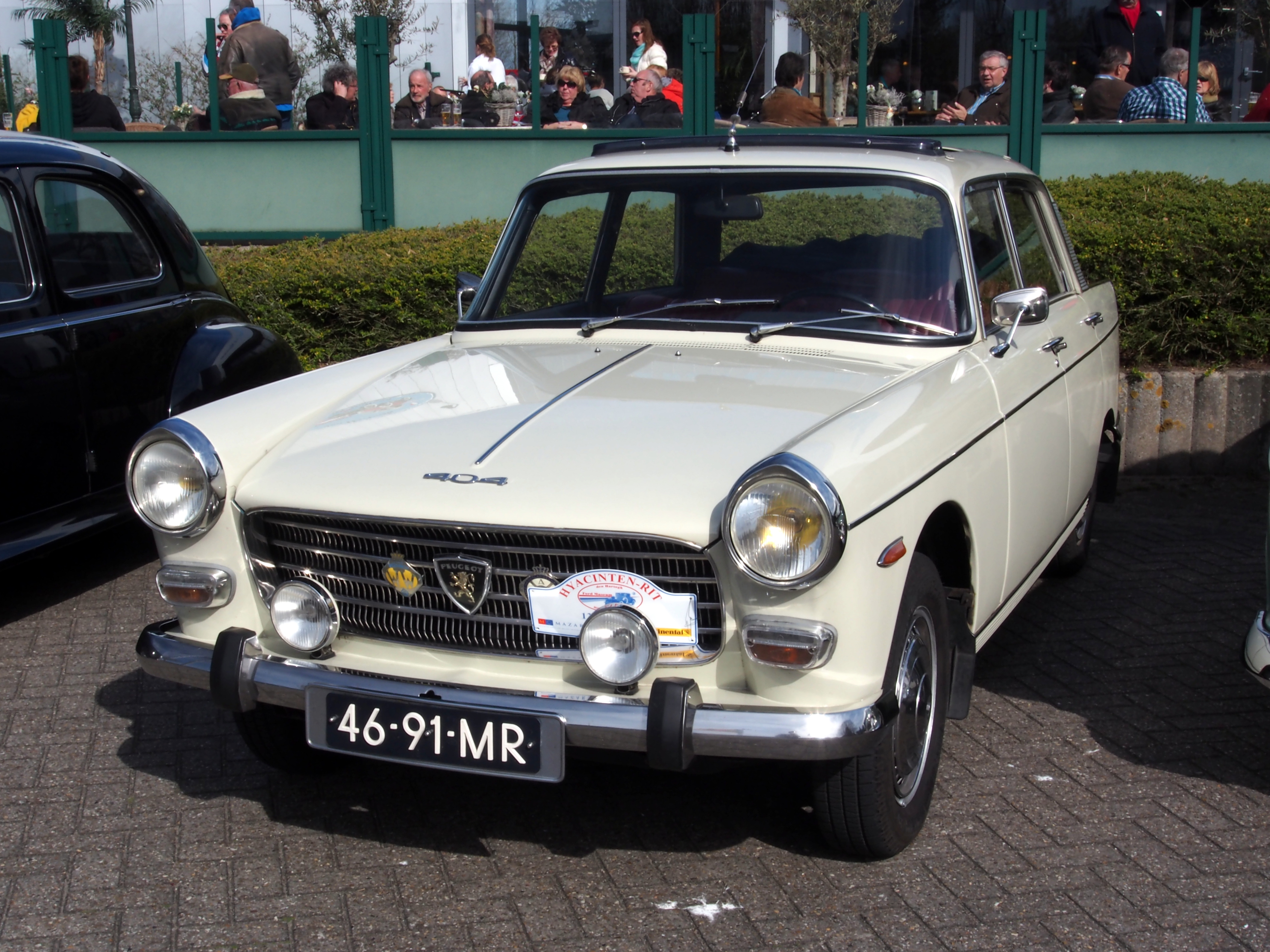 Photographed at the Hyacintenrit 2013.